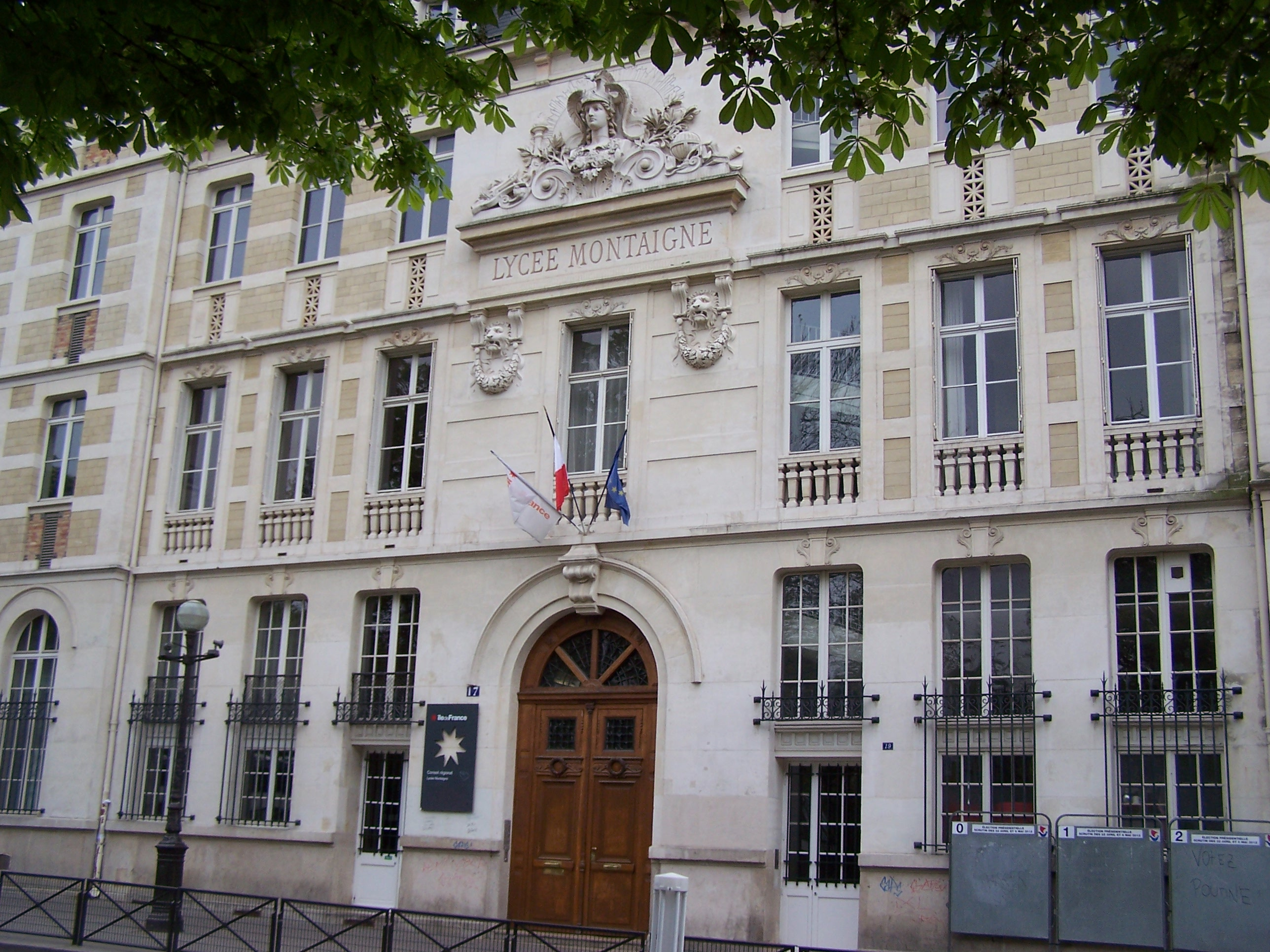 Lycée Montaigne, rue Auguste-Comte, Paris